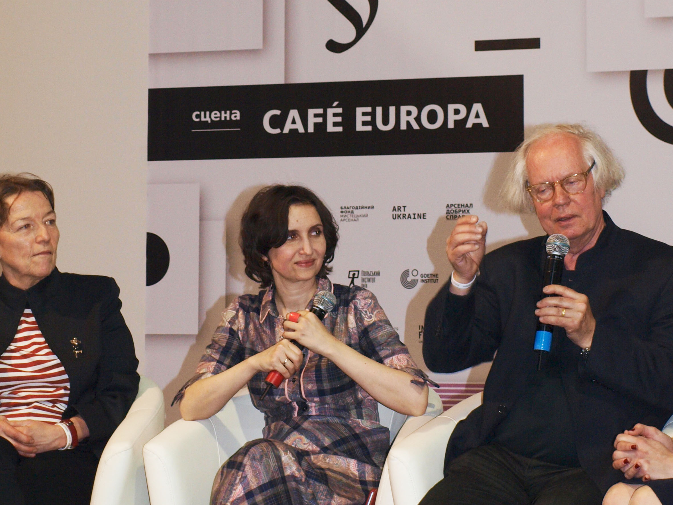 Ulf Stark and his wife Janina Orlov (left) in Kyiv